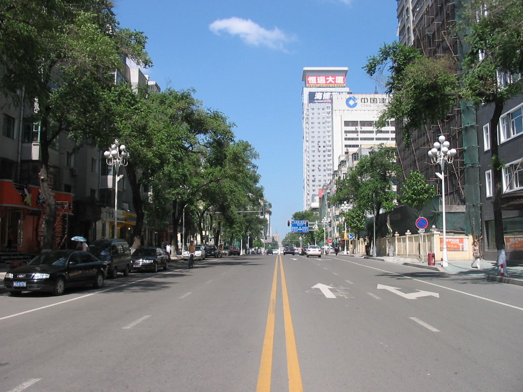 中国黑龙江省哈尔滨市南岗区花园街 Hua Yuan Street in the Nangang District, Harbin City, Heilongjiang Province, China.